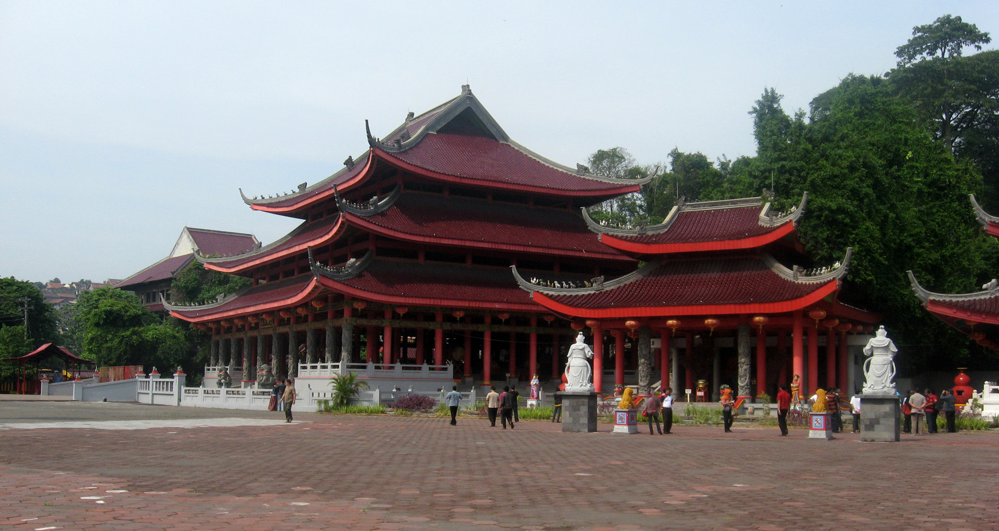 Sam Poo Kong Temple, in Semarang. This image shows several of the buildings in the complex